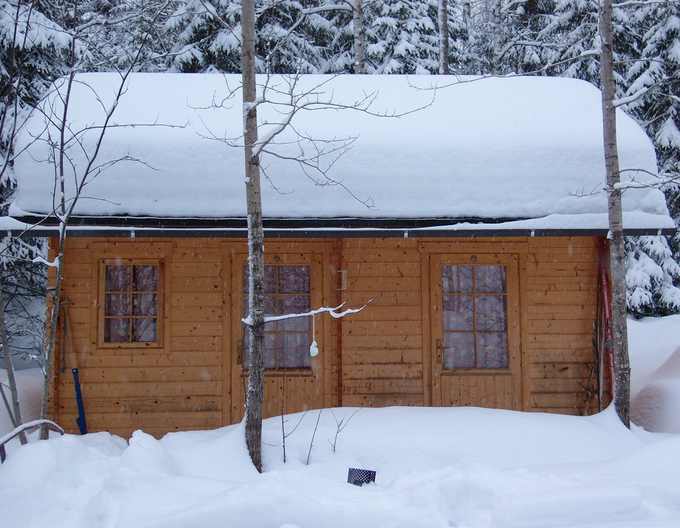 a cabin during winter in Finland